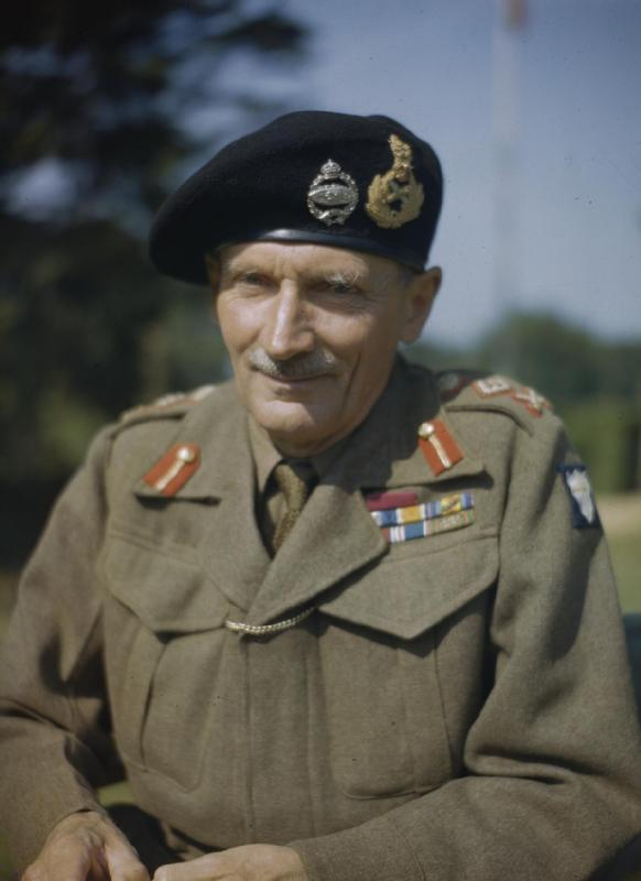 General Sir Bernard Montgomery in England, 1943 Half-length portrait of the Commander of the Eighth Army General Sir Bernard Montgomery taken during a visit to England.